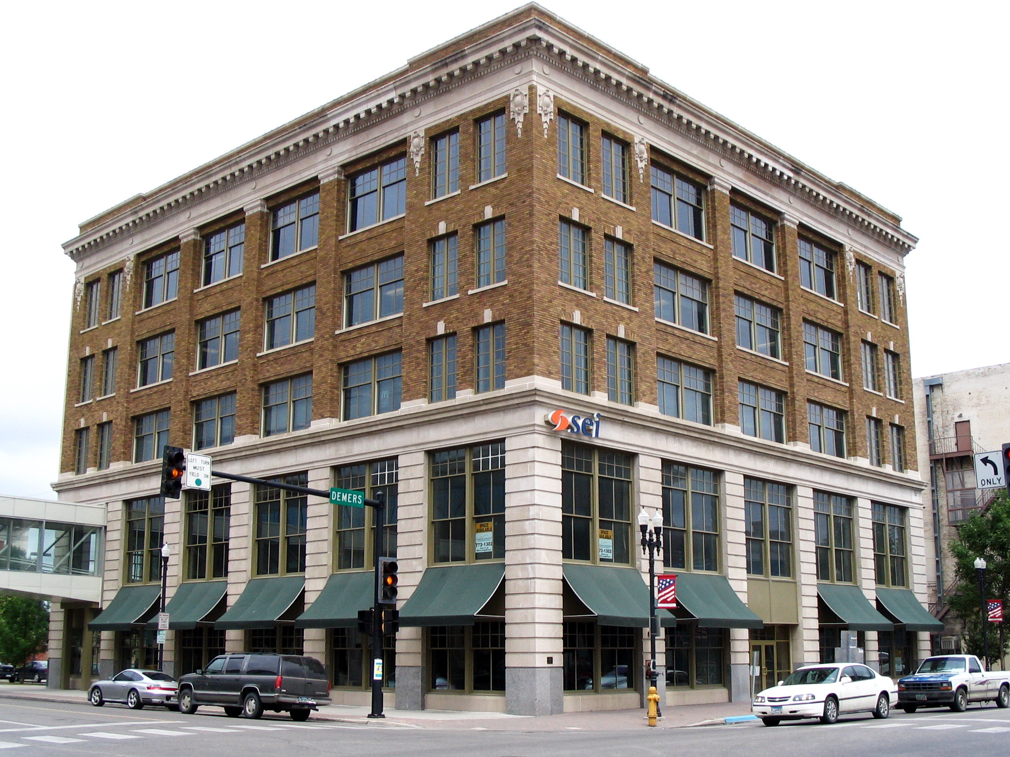 First National Bank Building, Grand Forks, North Dakota. This area is listed on the National Register of Historic Places.